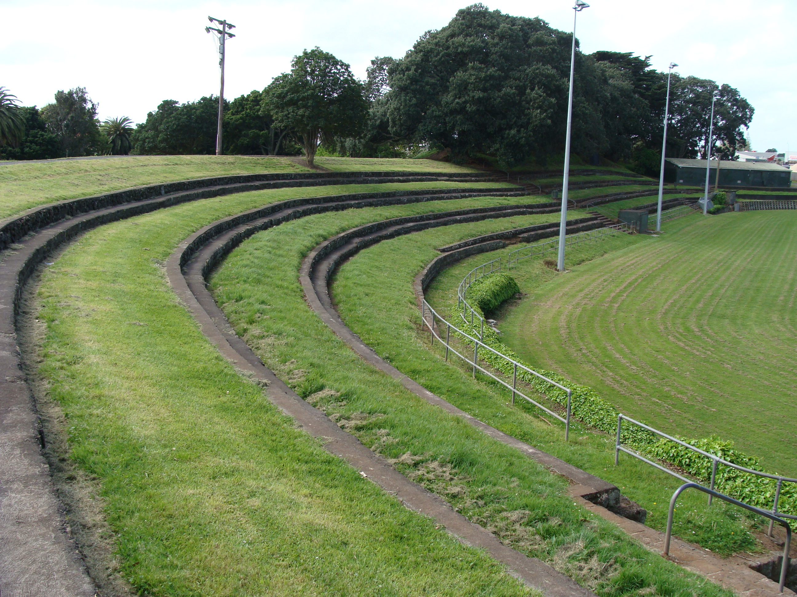 Sportsfield built into the crater of extinct volcano, Sturges Park, Auckland.